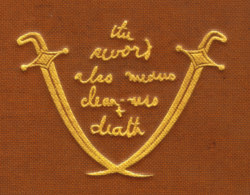 Tooling on the front of the 1st edition of The Seven Pillars of Wisdom. Scanned by CGS.